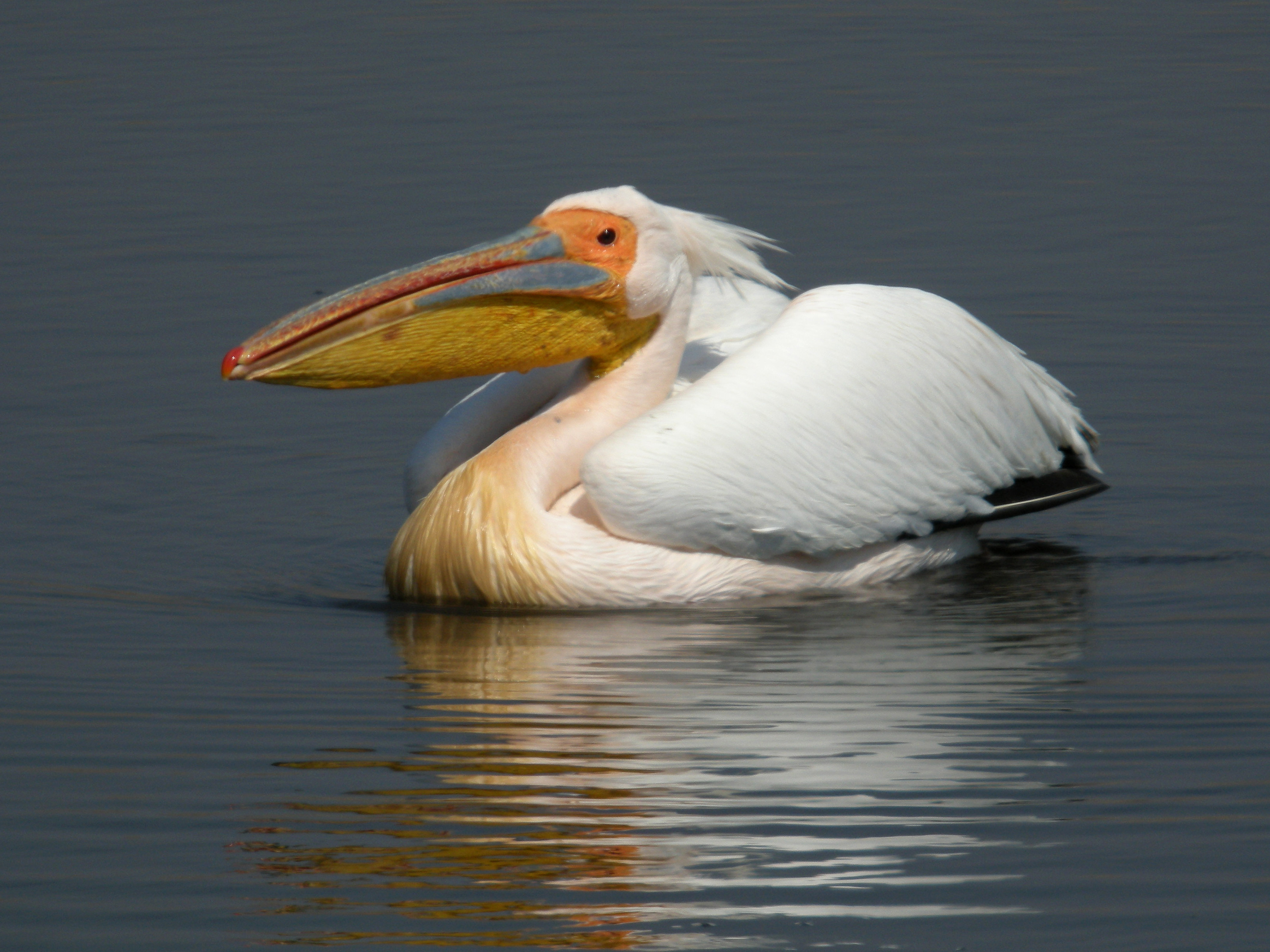 Great White Pelican, Etosha National Park, Namibia Swarowski 80 HD 30 X, Coolpix P5100 (Adapter DCB)